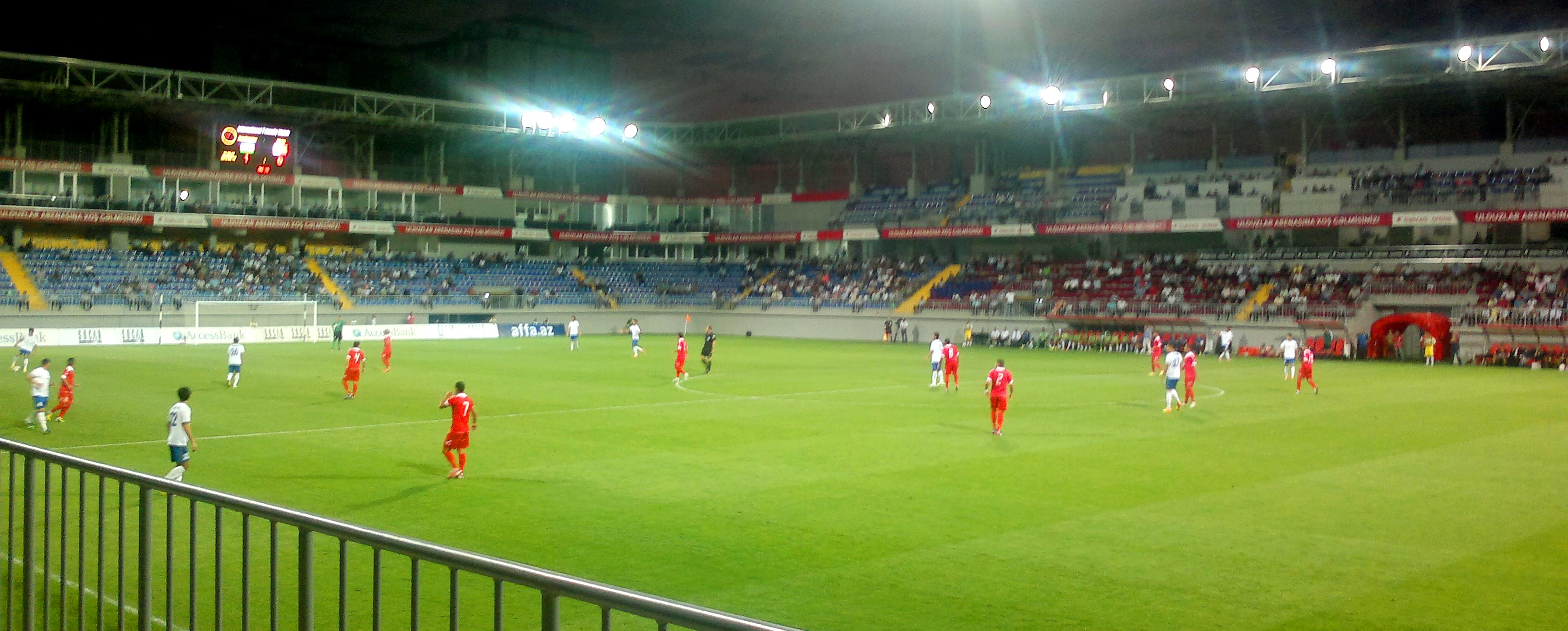 Azerbaijan - Malta. Bakcell Arena.